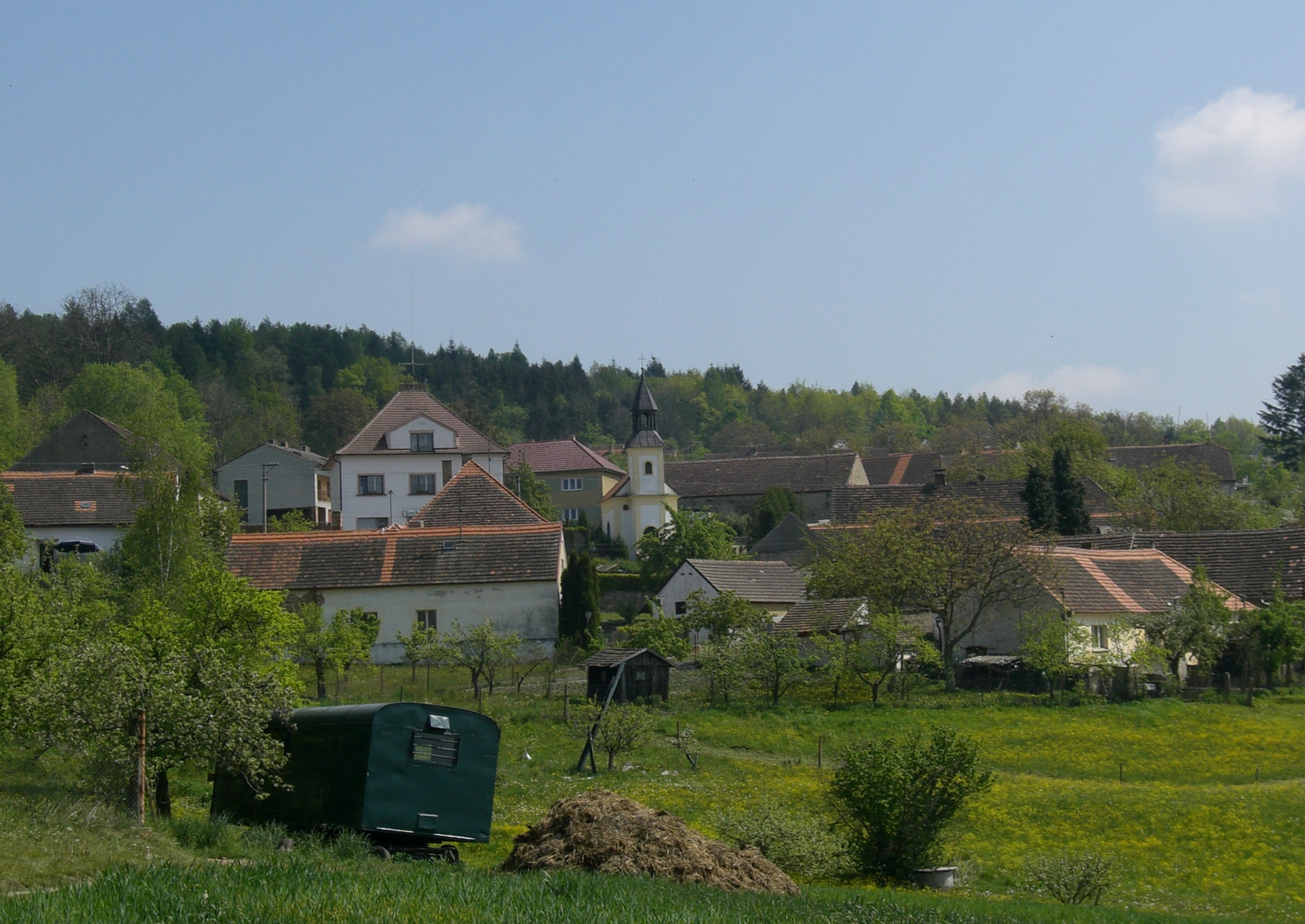 Paseky village, Písek District, Czech Republic.